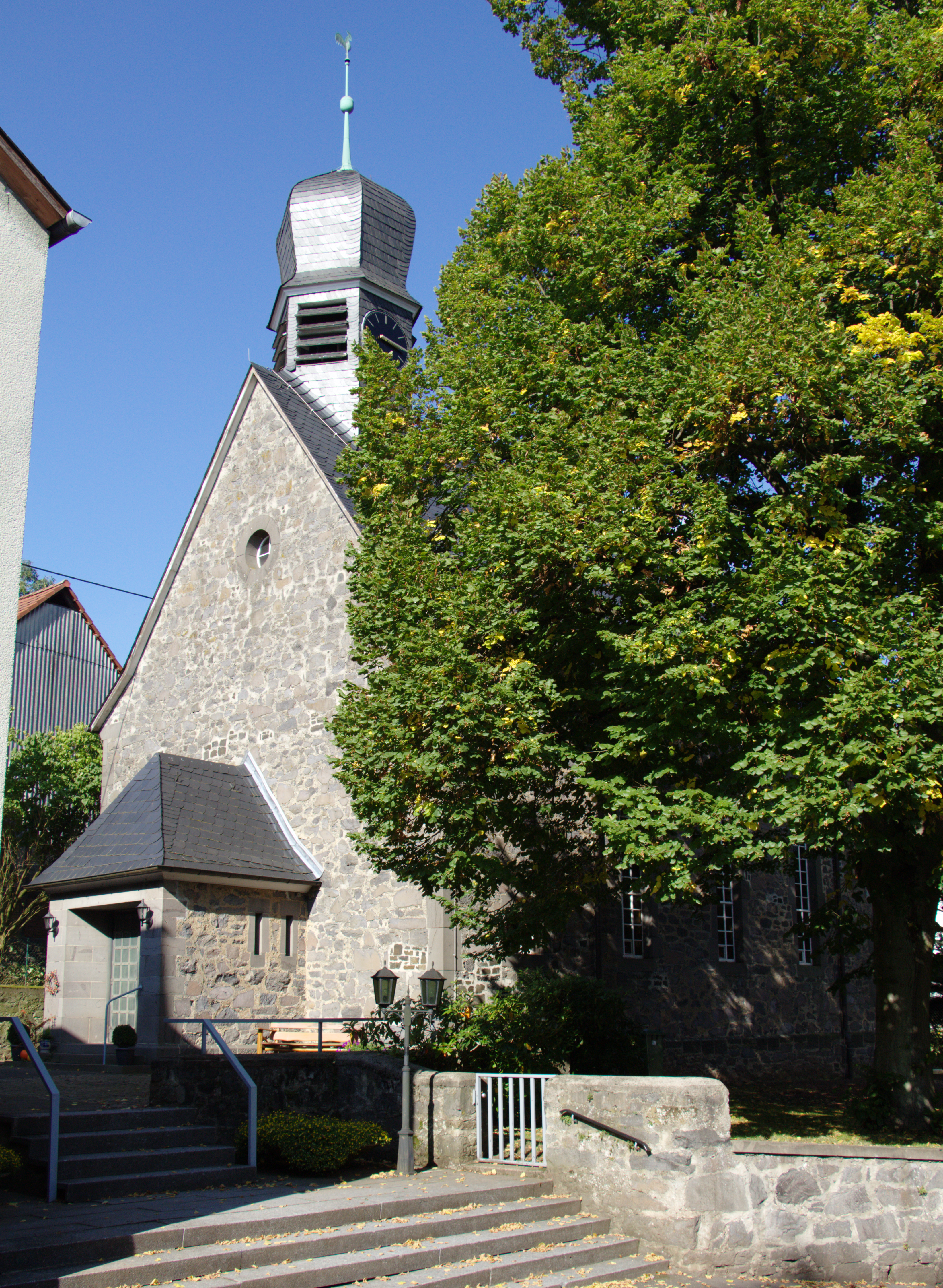 Protestant church in Weickartshain Glockenstrasse, Gruenberg, Hesse, Germany